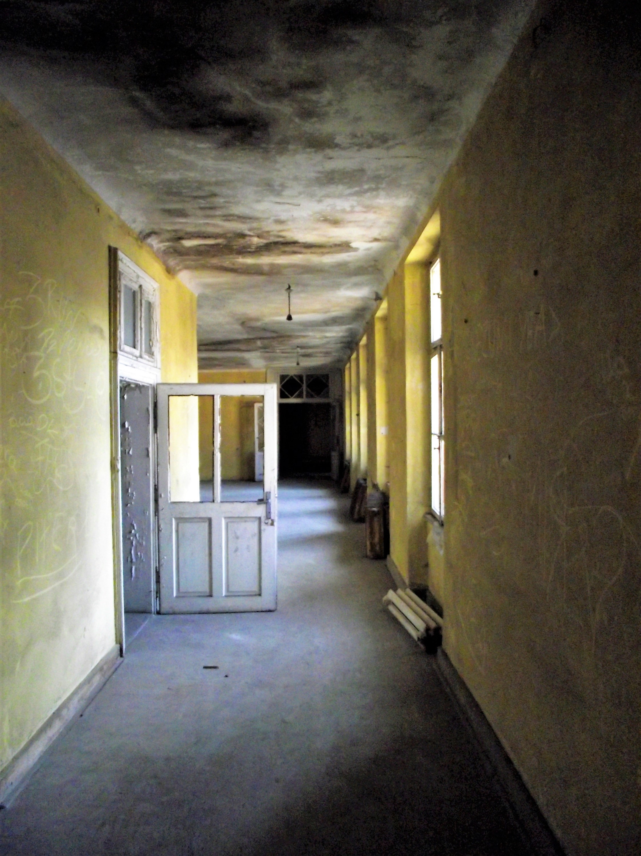 A corridor in the Potocki Palace in Krzeszowice, Poland.